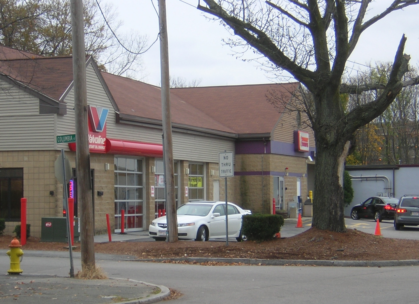 The site at the corner of Centre and Columbia Streets, Quincy, Massachusetts, where S. H. Barnicoat Monument Company stood.